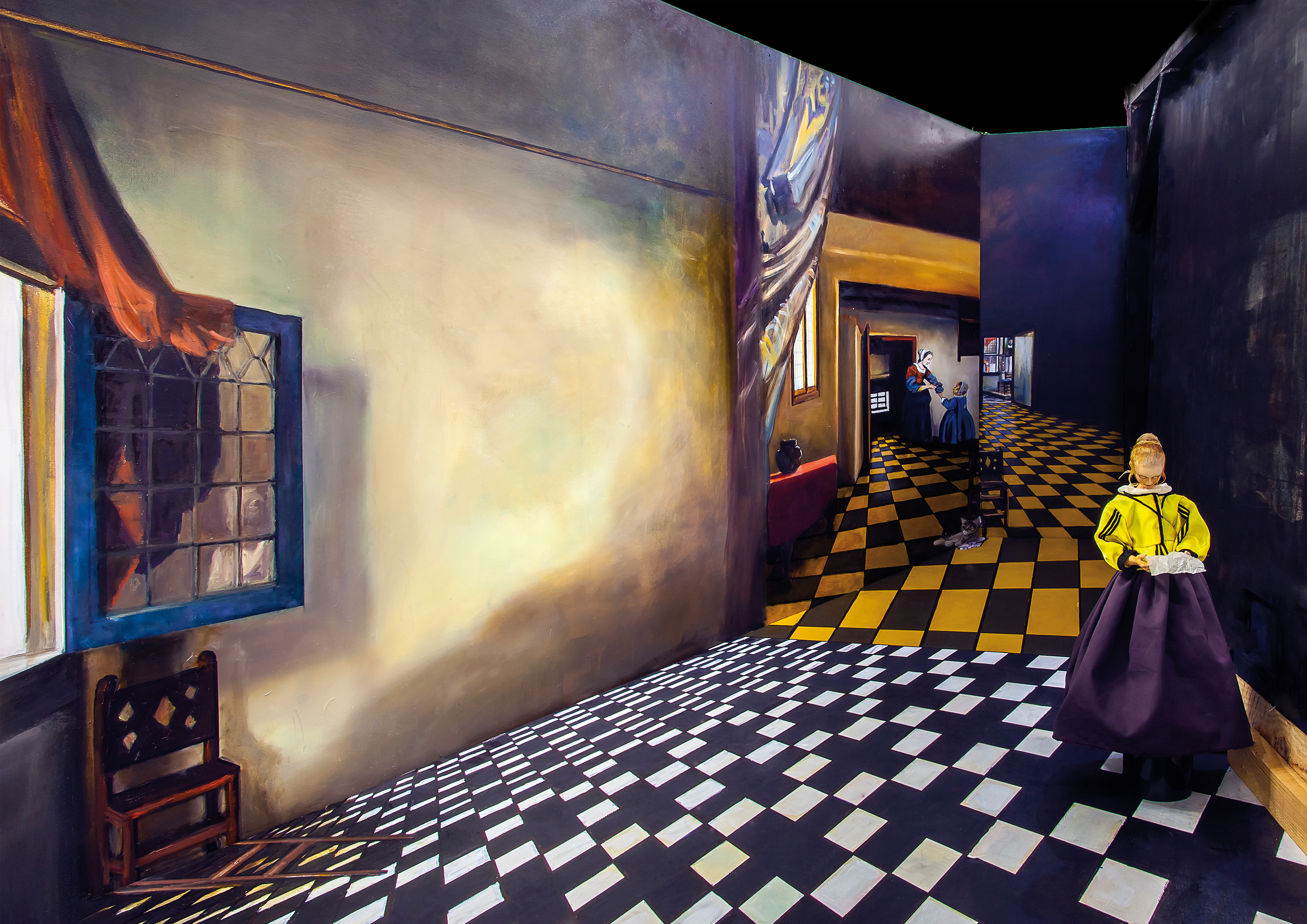 Agata-Materowicz-Girl-Reading-a-Letter-at-an-Open-Window.